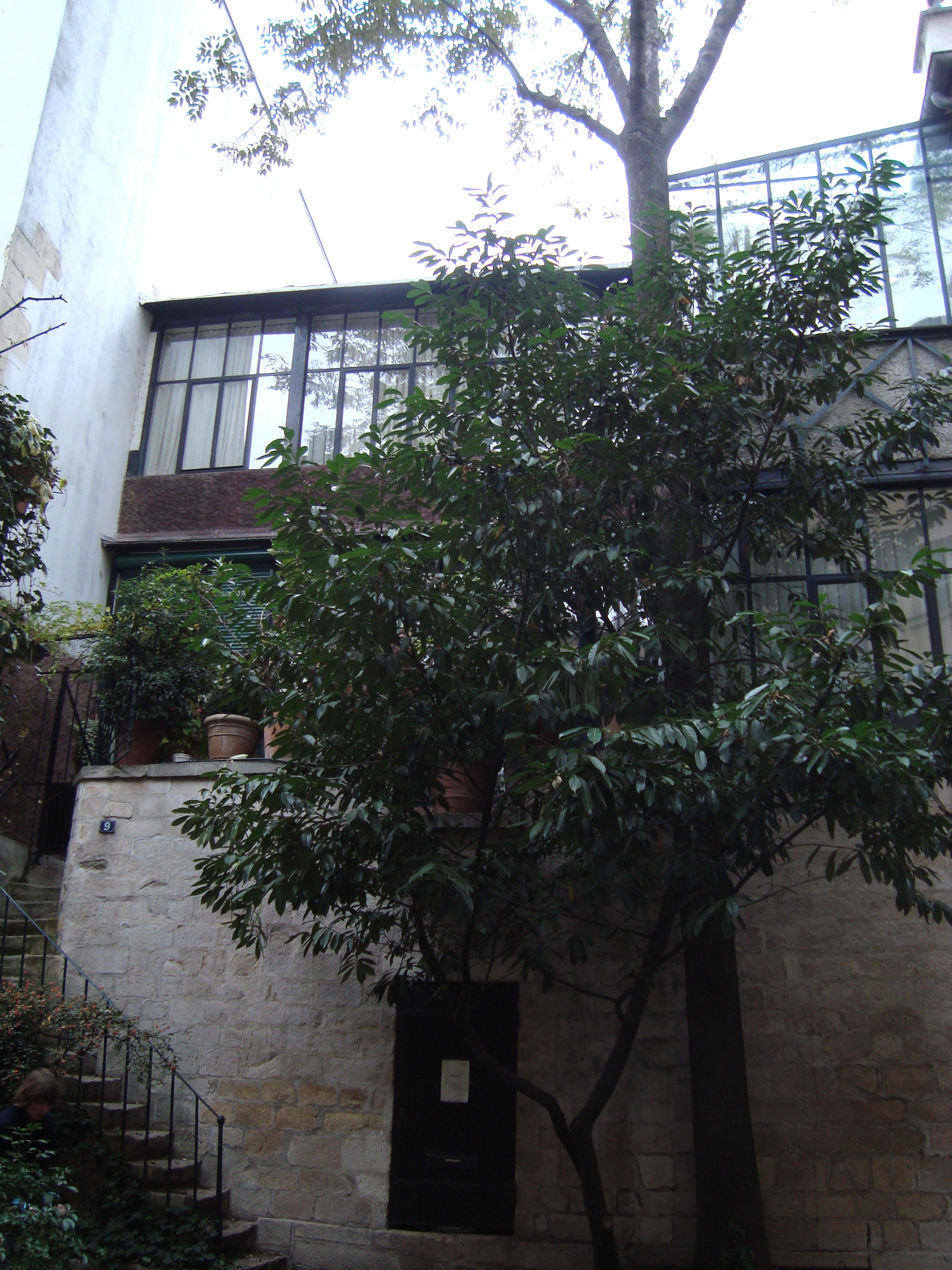 The Atelier of Balthus at Cour de Rohan in Paris